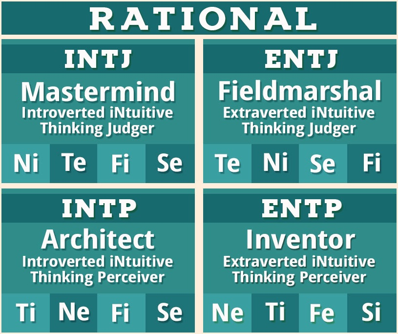 Rational, INTJ, ENTJ, INTP, ENTP, Cognitive Functions and Keirsey Temperament